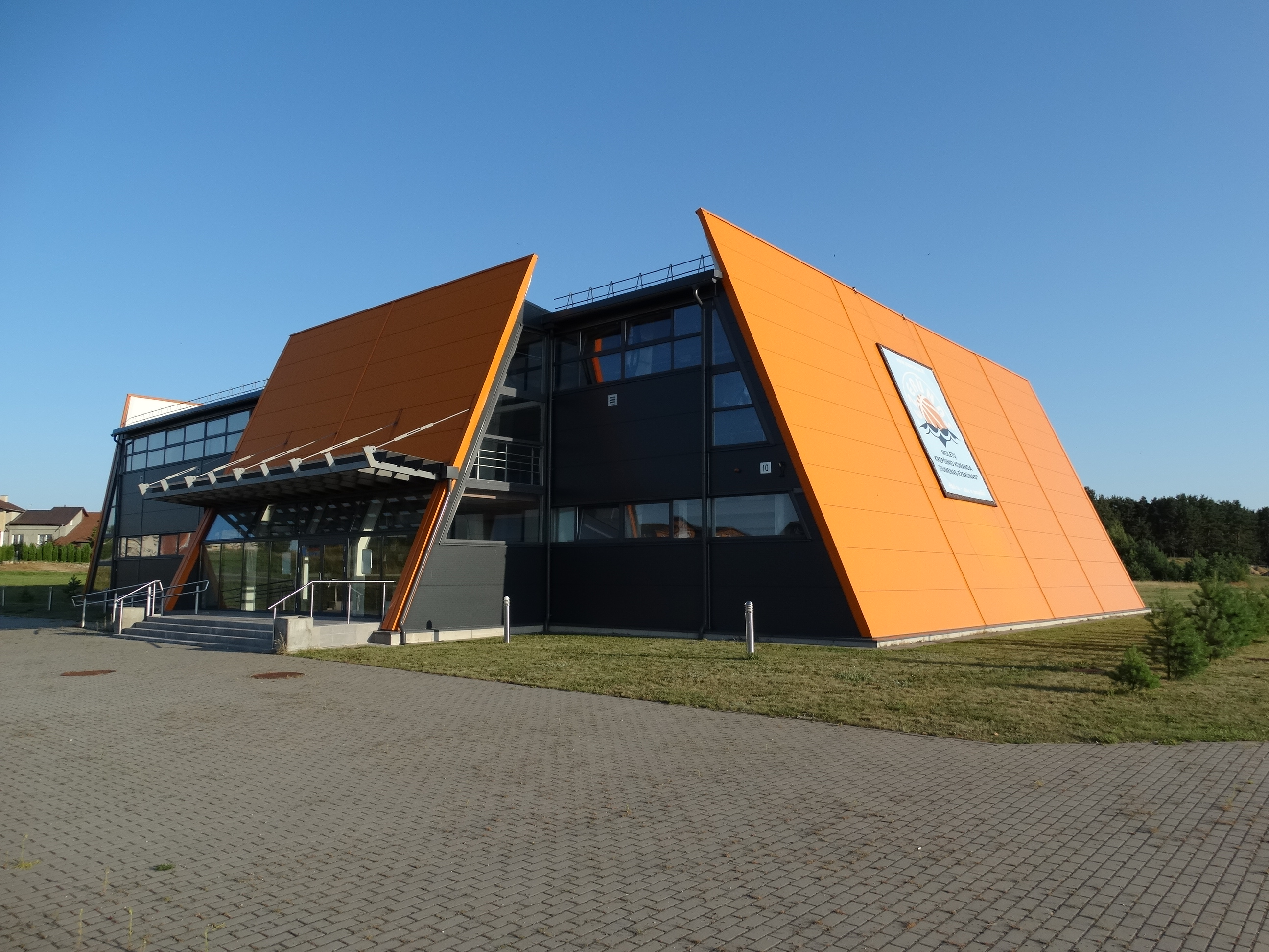 Sports arena, Molėtai, Lithuania